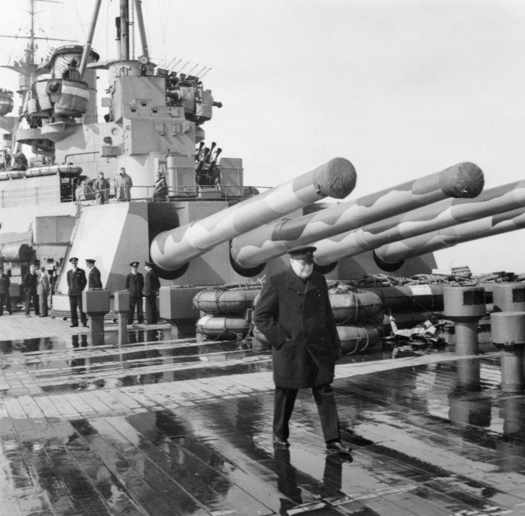 Winston Churchill on board the battleship HMS Prince of Wales during his journey to North America to meet President Roosevelt, August 1941. The Prime Minister Winston Churchill on board HMS Prince of Wales during his journey to North America to meet with President Roosevelt. The quadruple 14 inch guns of Y turret is visible in the background.